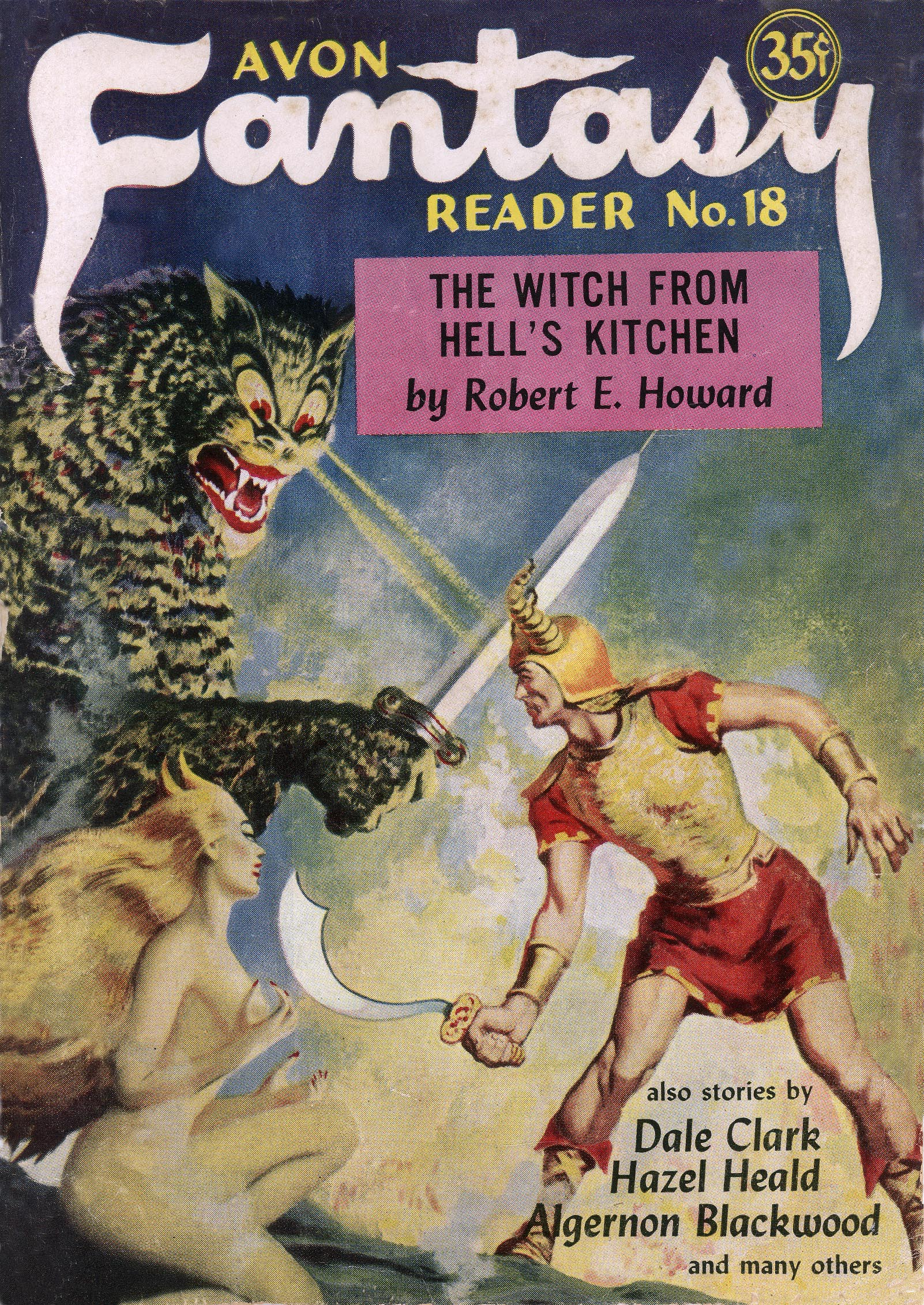 Cover of the fantasy fiction magazine Avon Fantasy Reader no. 18 (1952) featuring "The Witch from Hell's Kitchen" by Robert E. Howard.